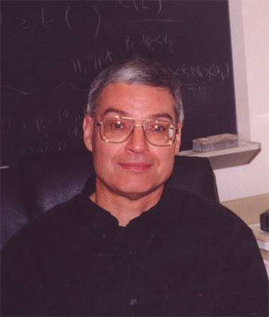 Picture of Fritz Gesztesy, Austrian-American mathematical physicist